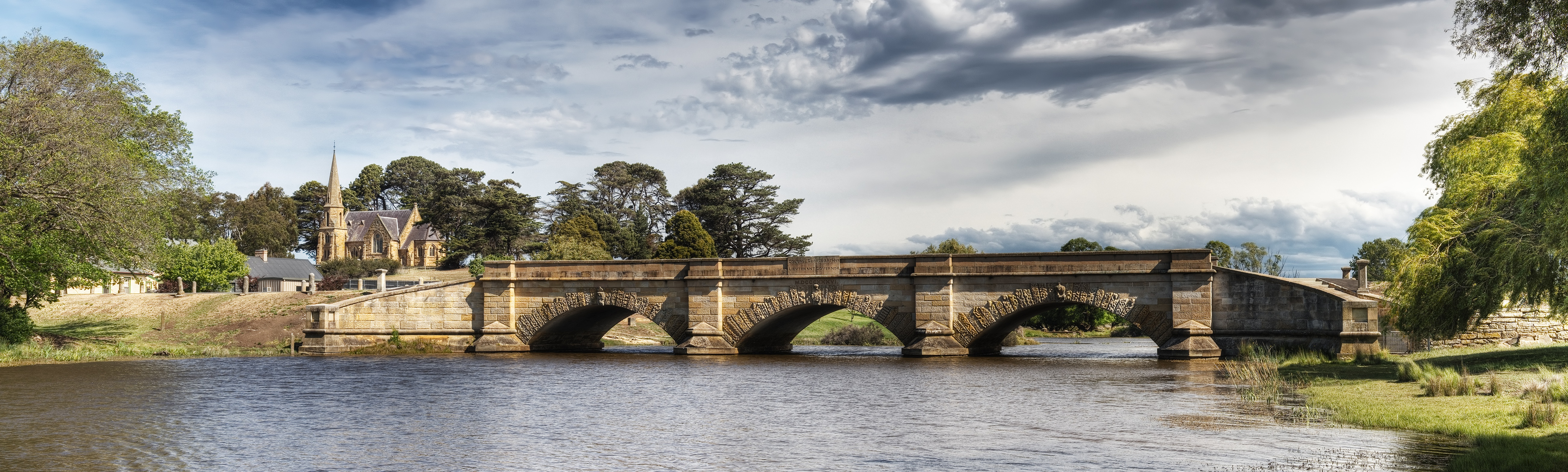 Ross Bridge with the Uniting Church behind, Tasmania, Australia.